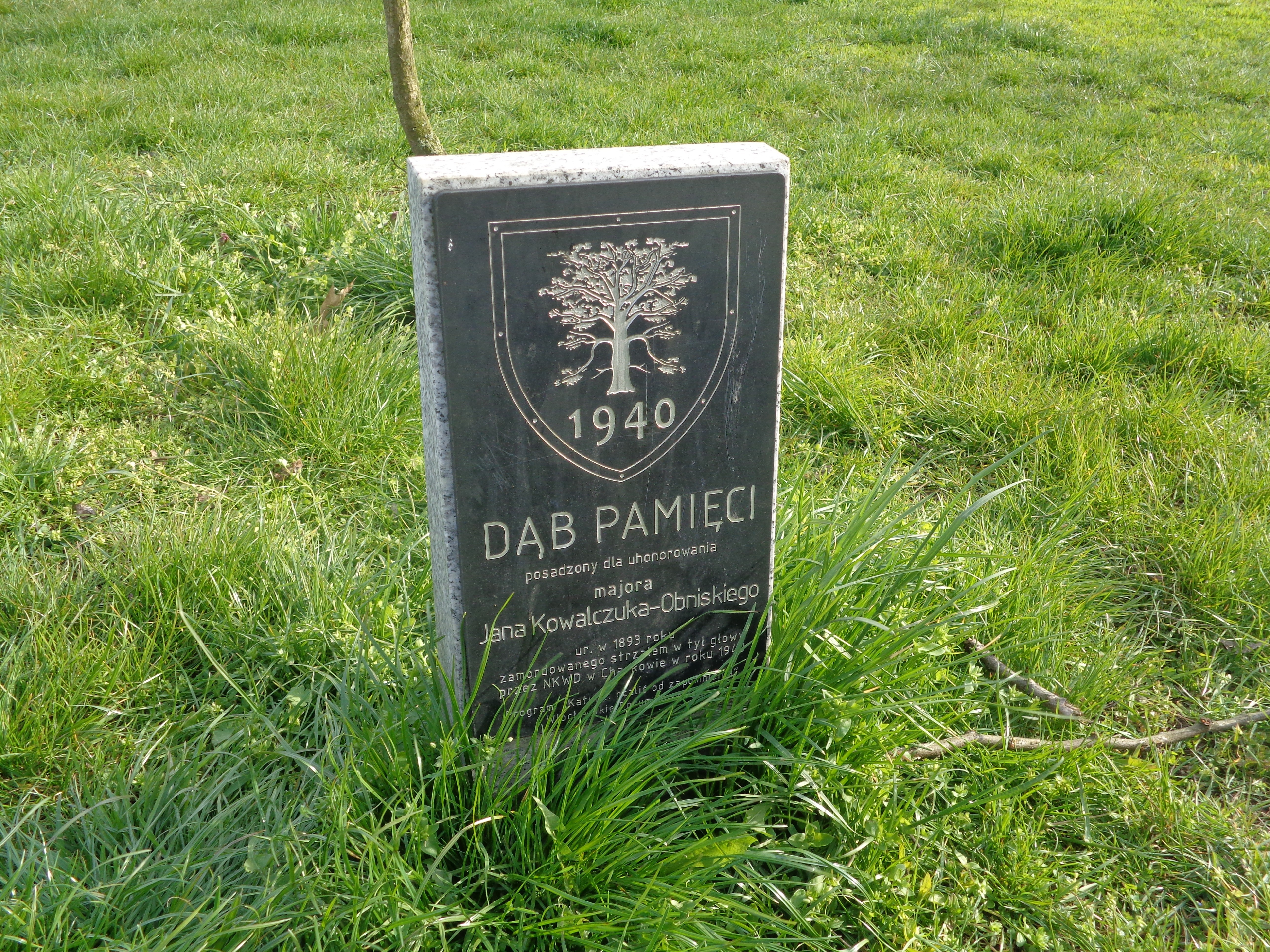 One of Memorial Oaks near the Church of The Saintest Saior in Włocławek, dedicated to Jan Kowalczuk-Obniski.